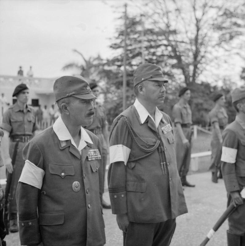 The British Reoccupation of Malaya General Itagaki, commander of the Japanese 7 Area Army, and his Chief of Staff, General Ayabe, after surrendering their swords at the formal ceremony of surrender held in the grounds of Headquarters Malaya Command, Kuala Lumpur.